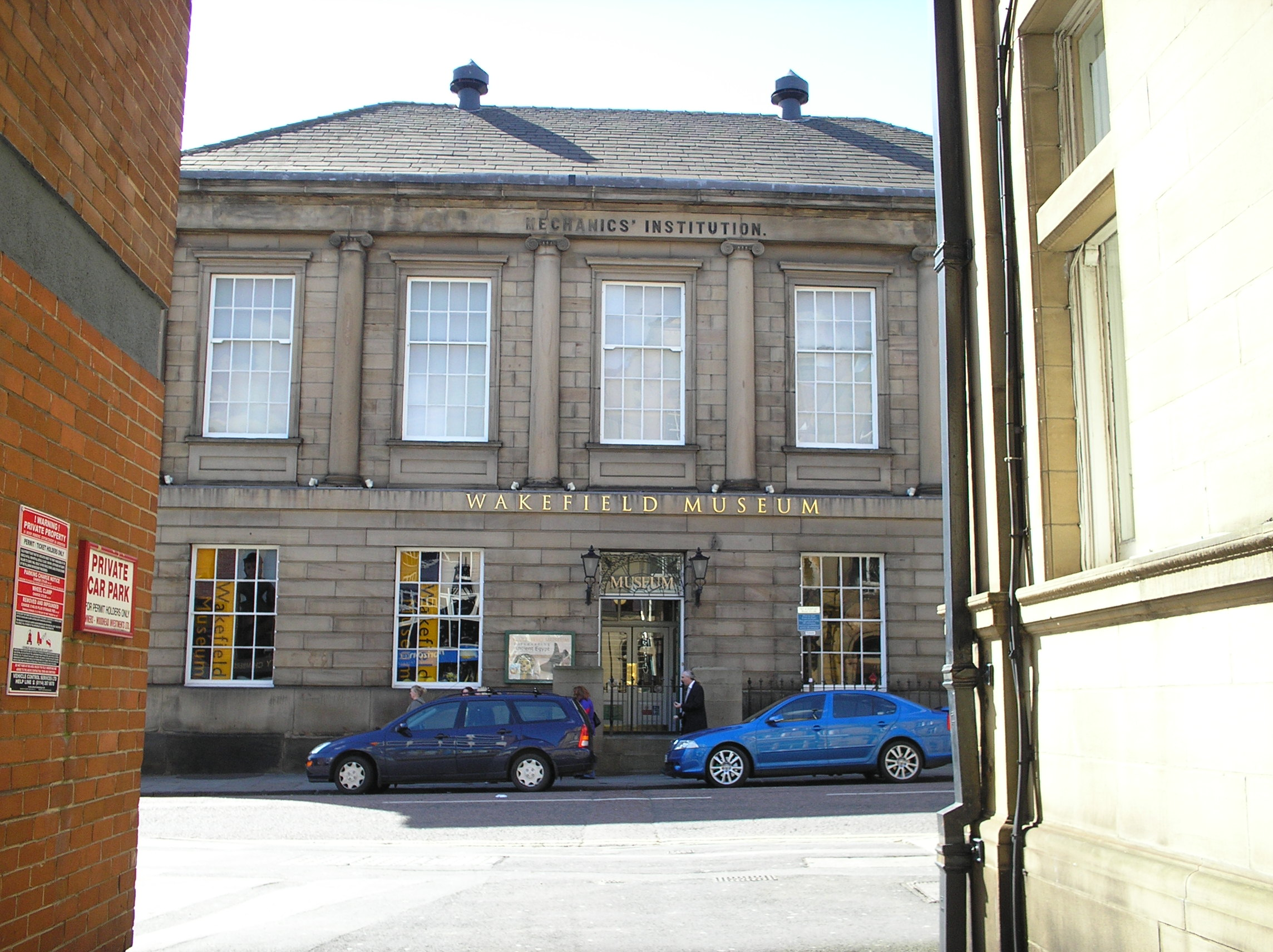 Mechanics' Institution in Wakefield